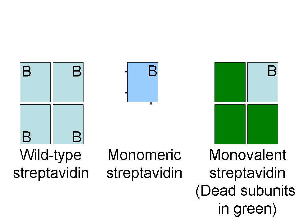 Schematic of wild-type, monovalent and monomeric streptavidin with B for biotin.